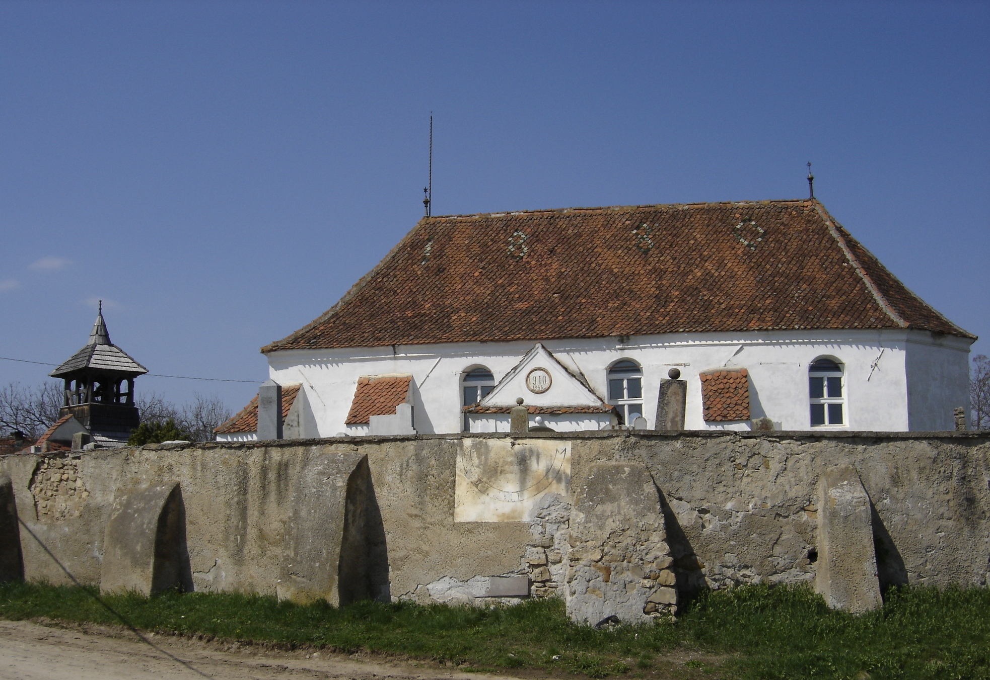 Covasna County,Calnic, Reformarted church, 15th century